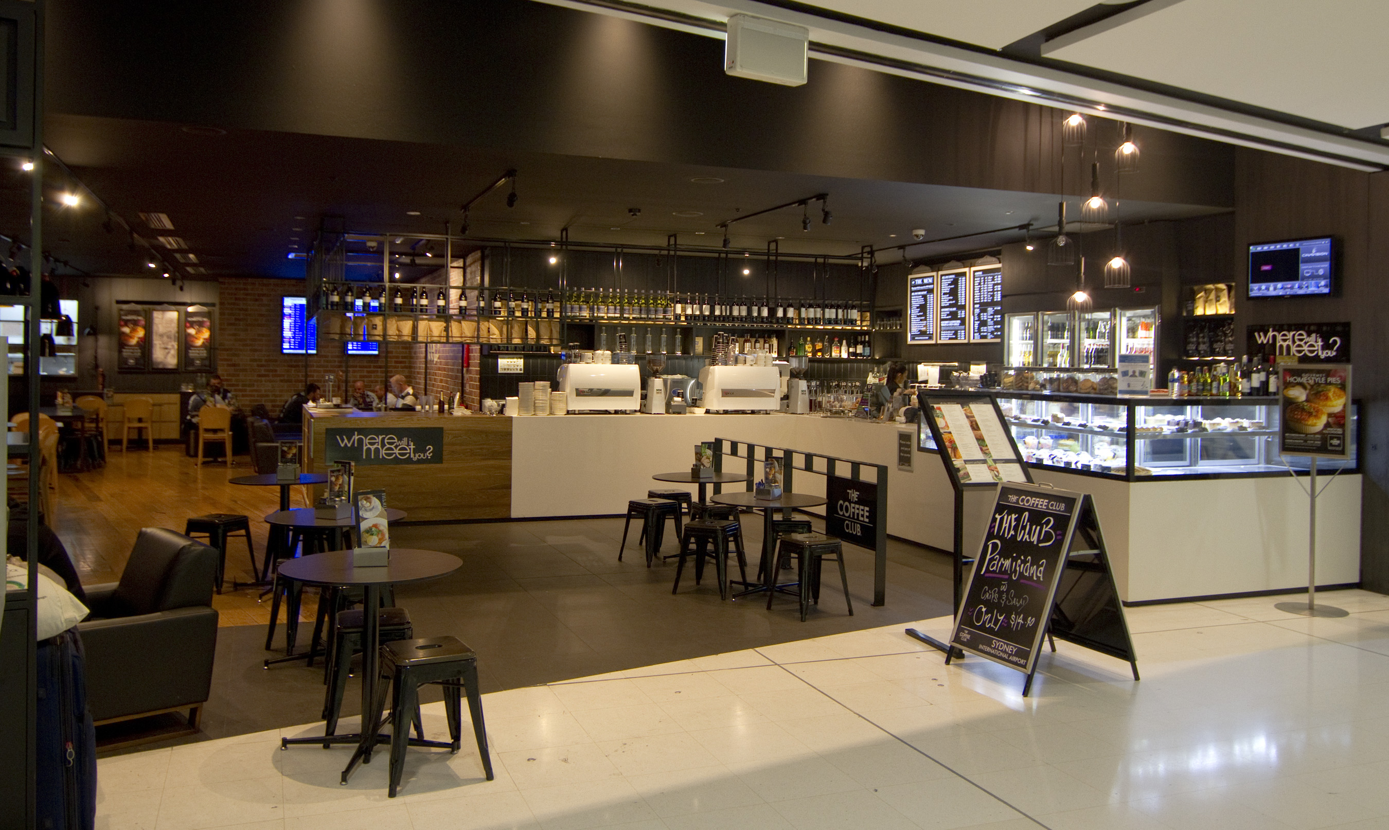 Mascot NSW 2020, Australia